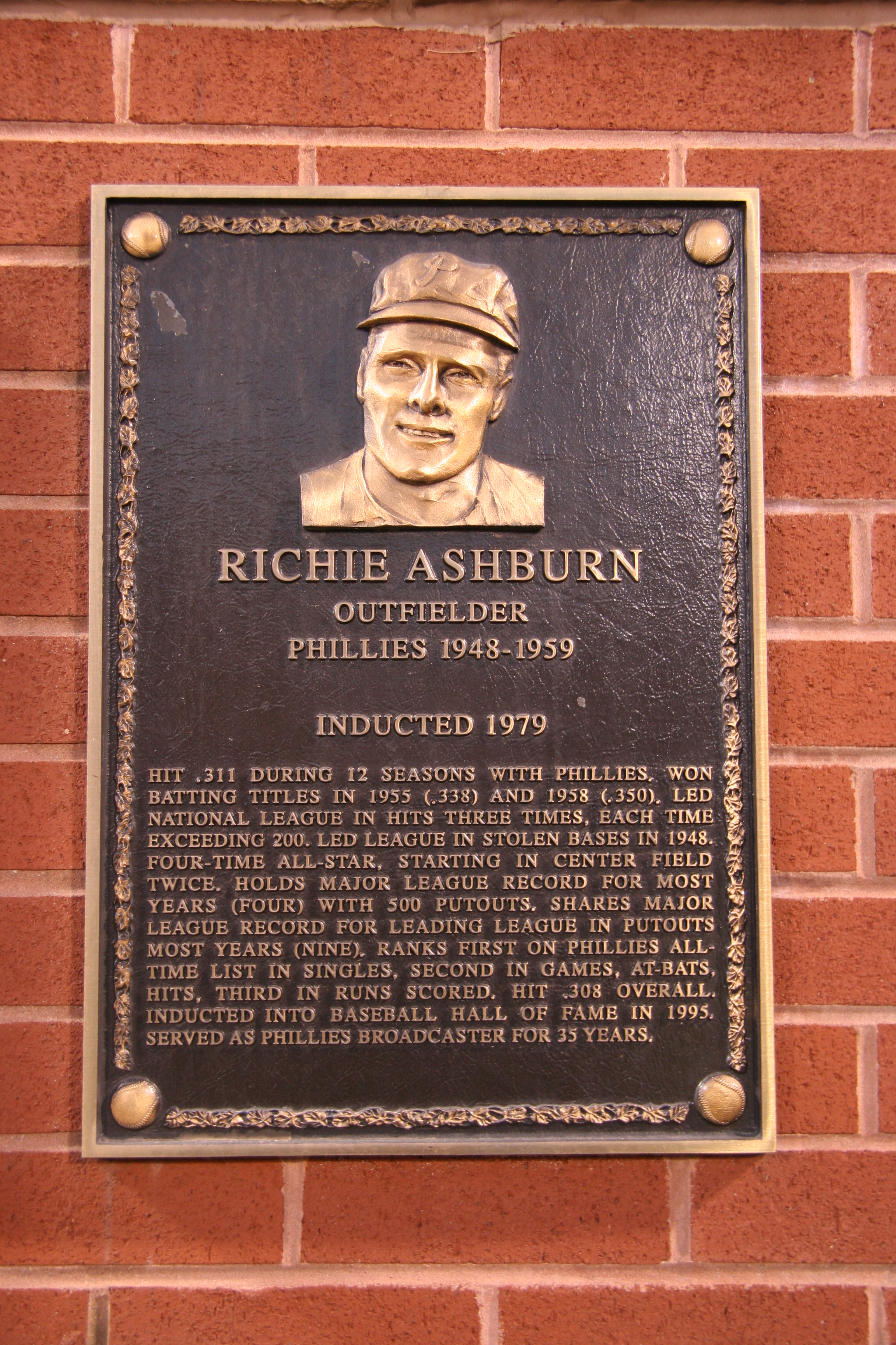 Richie Ashburn's plaque on the Philadelphia Baseball Wall of Fame